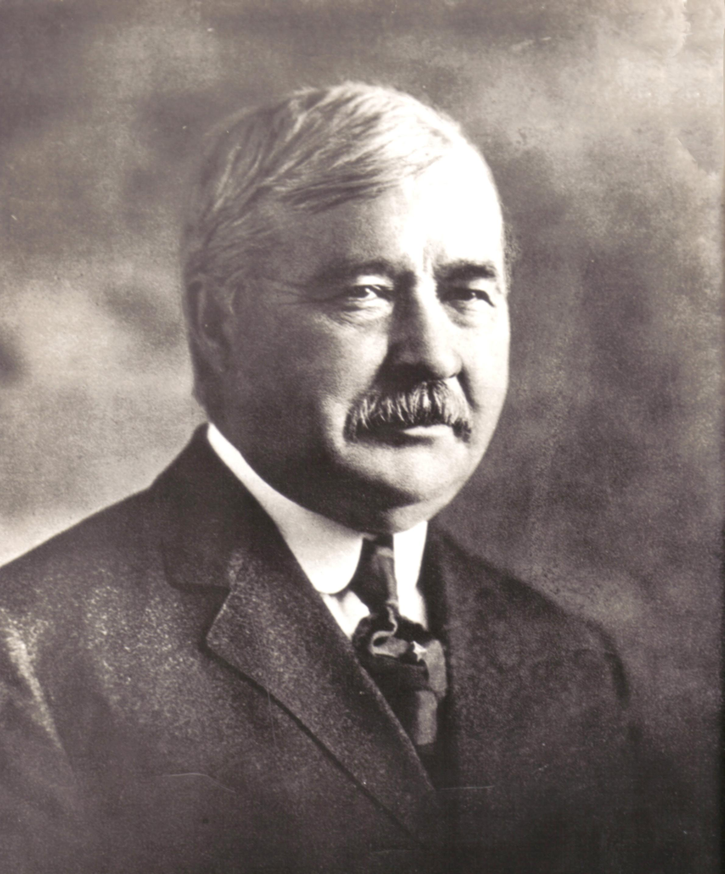 Elwood Haynes of Kokomo, Indiana: Inventor of stainless steel and other alloys, creator of one of the first automobiles in the United States, pioneer of assembly line techniques